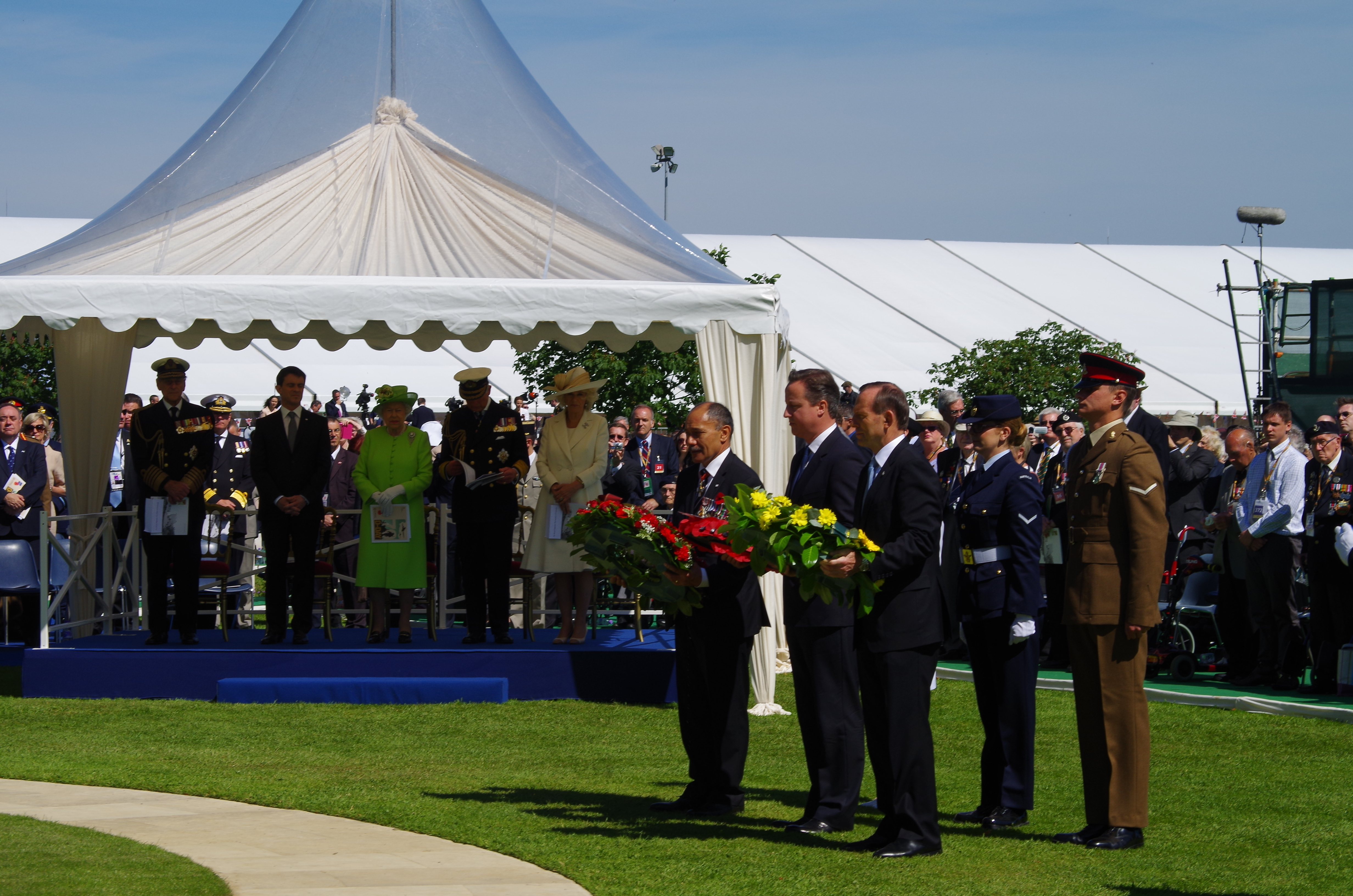 PM David Cameron lays a wreath at the Cross of Sacrifice in Bayeux Cemetery.